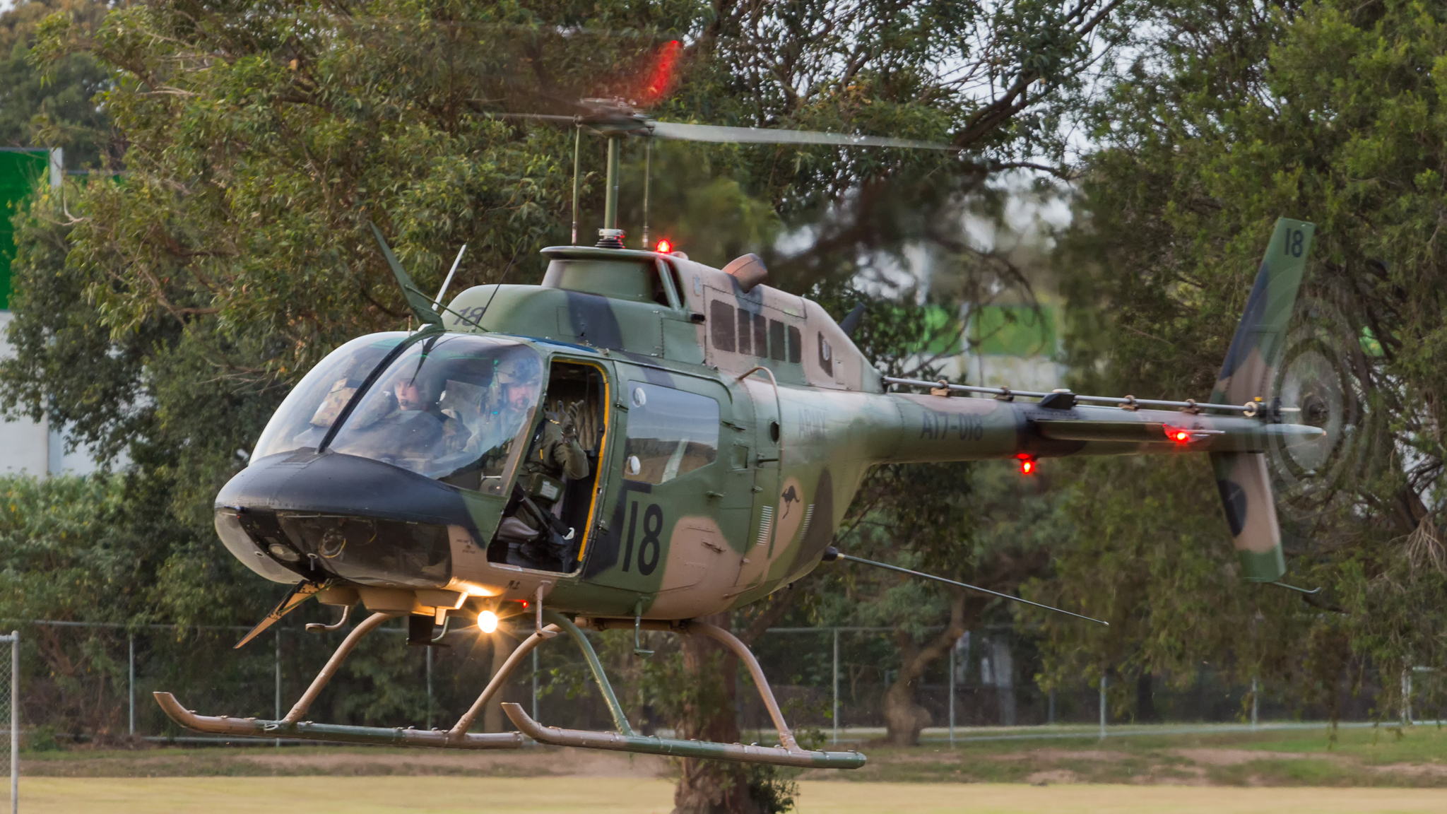 Australian Army Kiowa at Aviation High in Brisbane